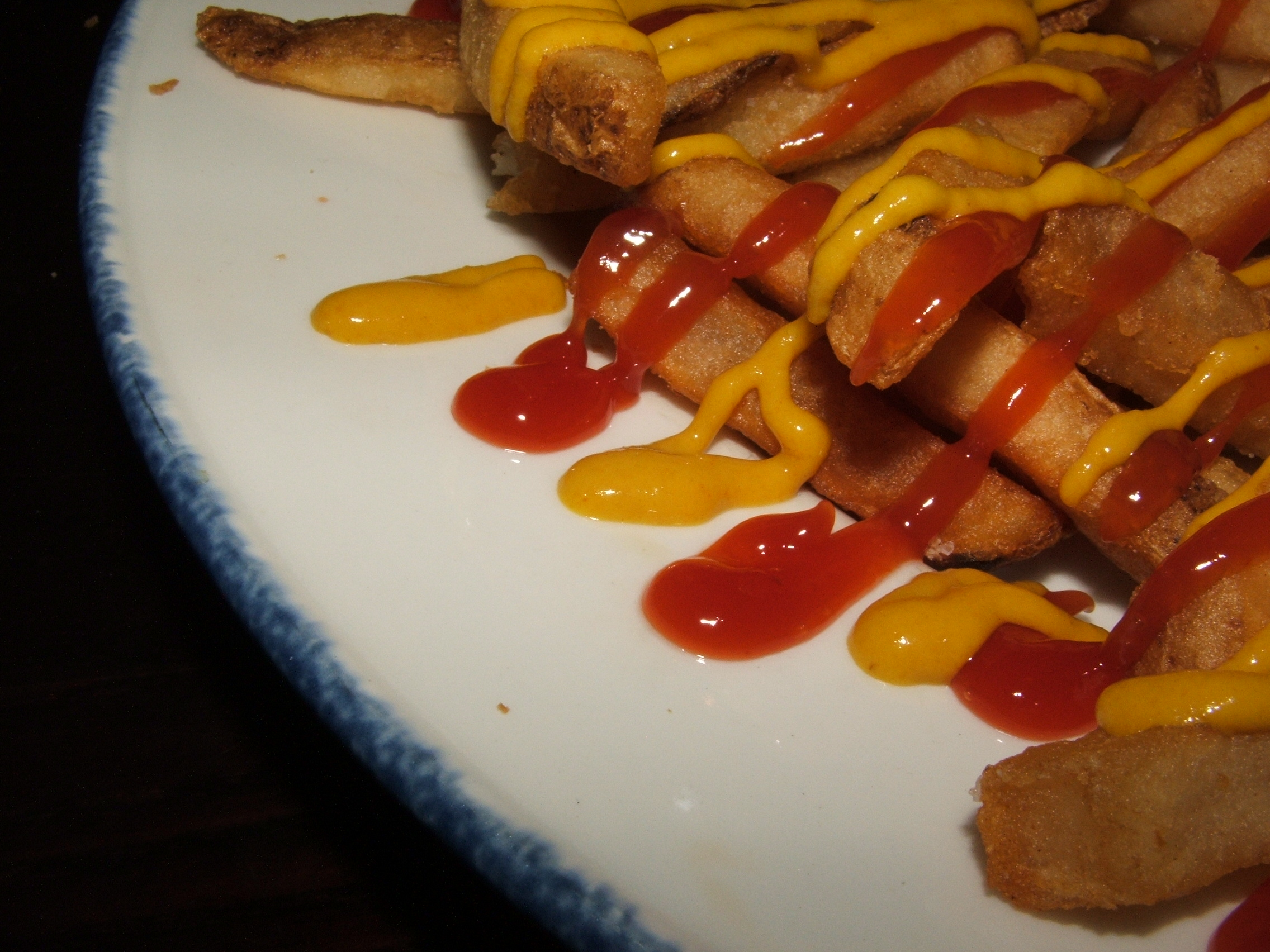 A plate of french fries with ketchup and mustard inside the Hard Rock Cafe at Pier 39 in San Francisco.